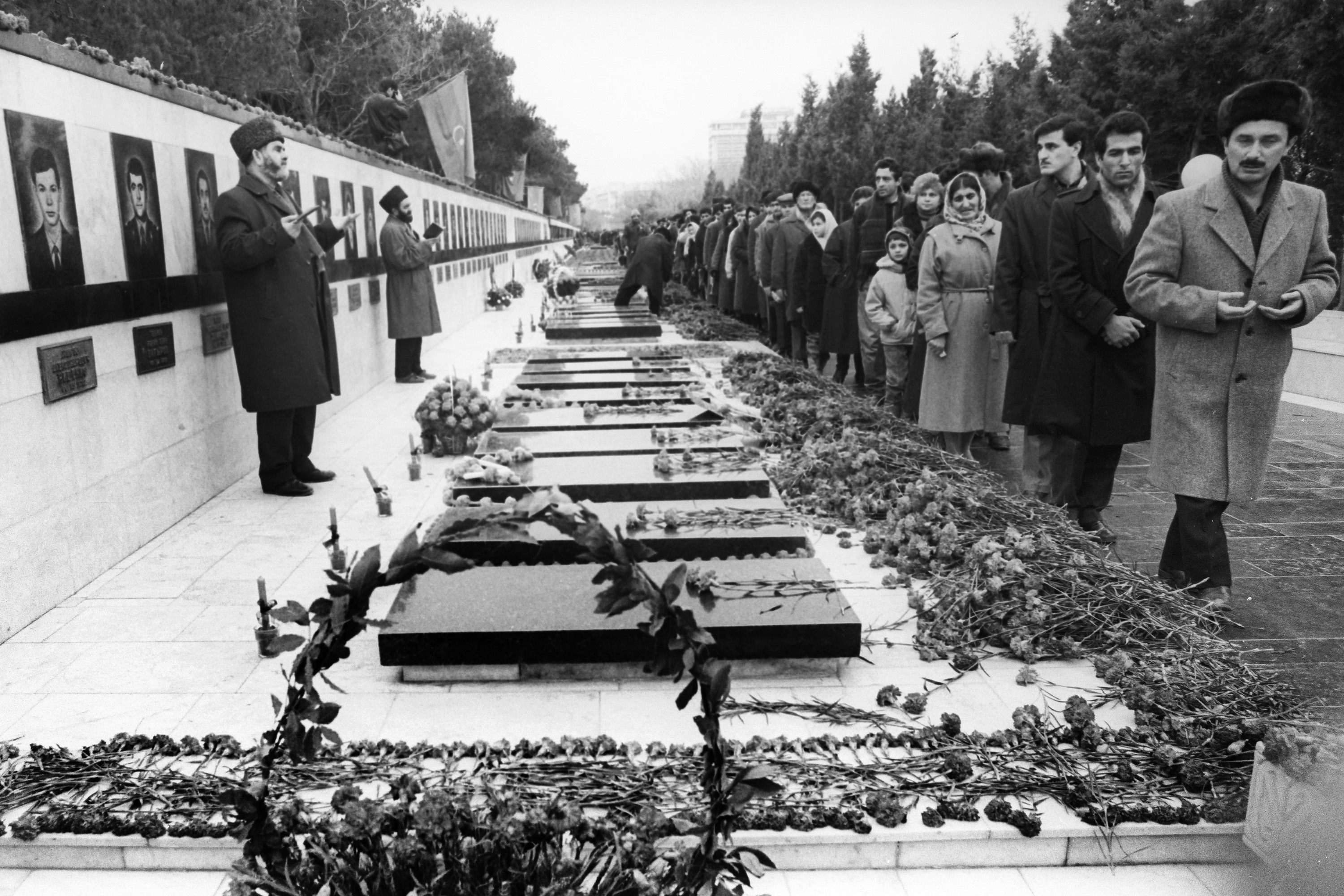 Martyrs' Lane